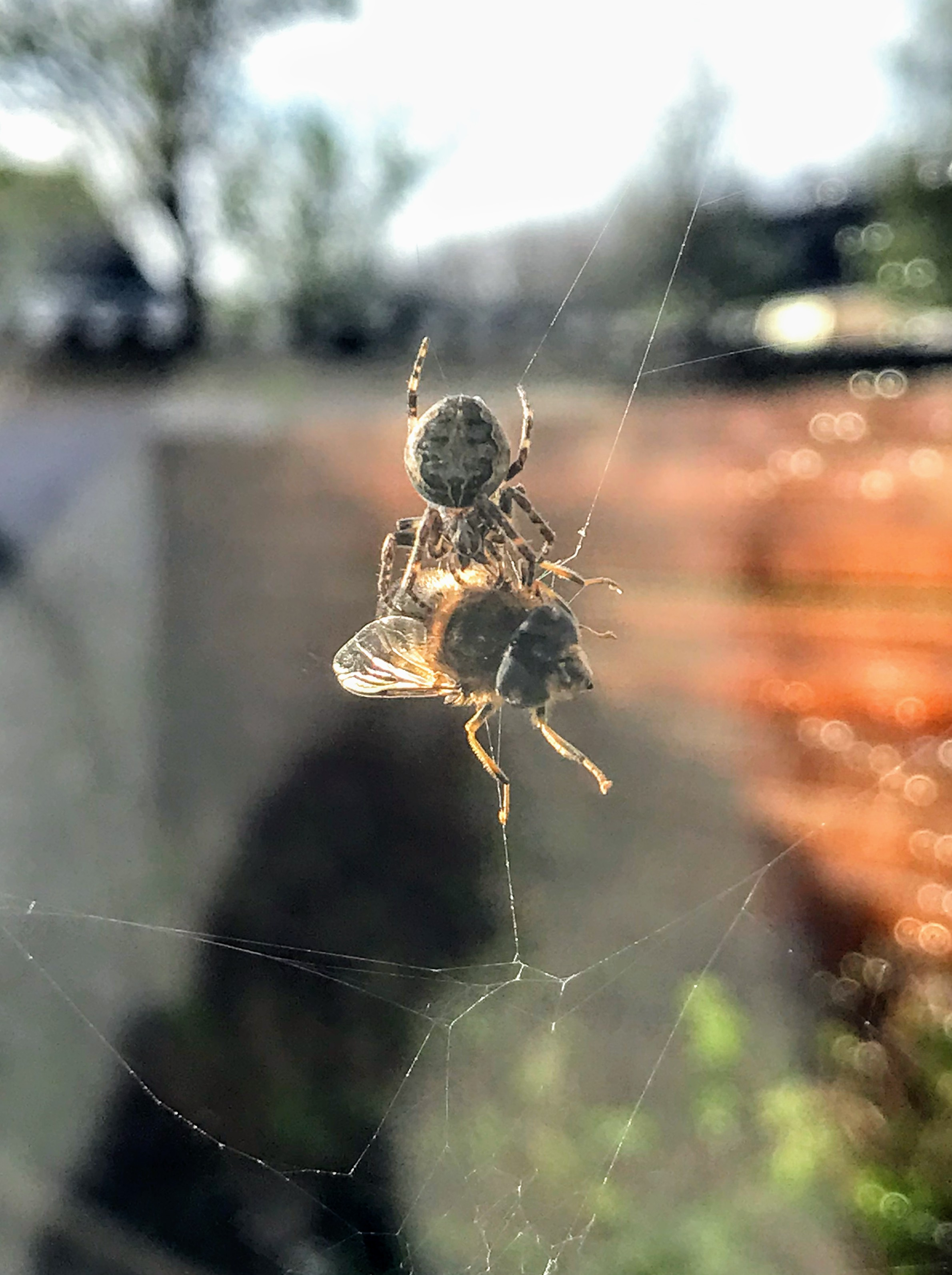 Wasp captured by spider in web